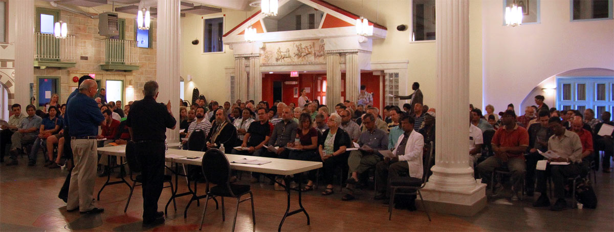 Group attending presentation at the Heritage Festival Preparatory Meeting in Edmonton, Alberta, Canada, taken May 21, 2015 by Andy Strohkirch